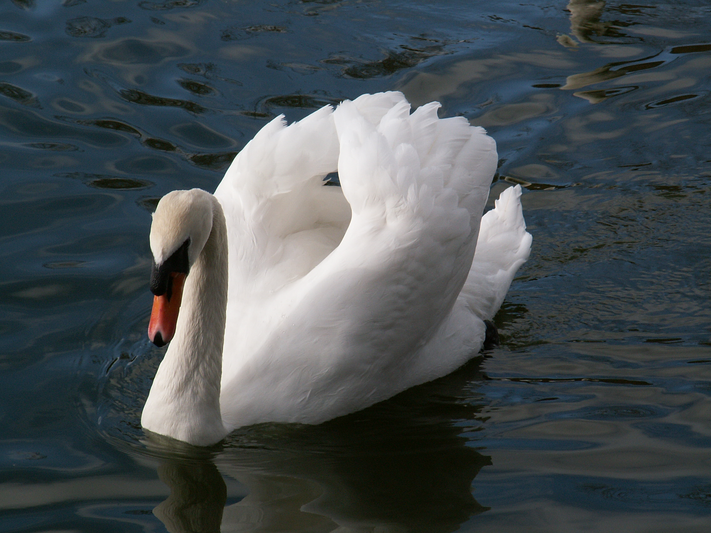 Swan (Cygnus olor), picture by me